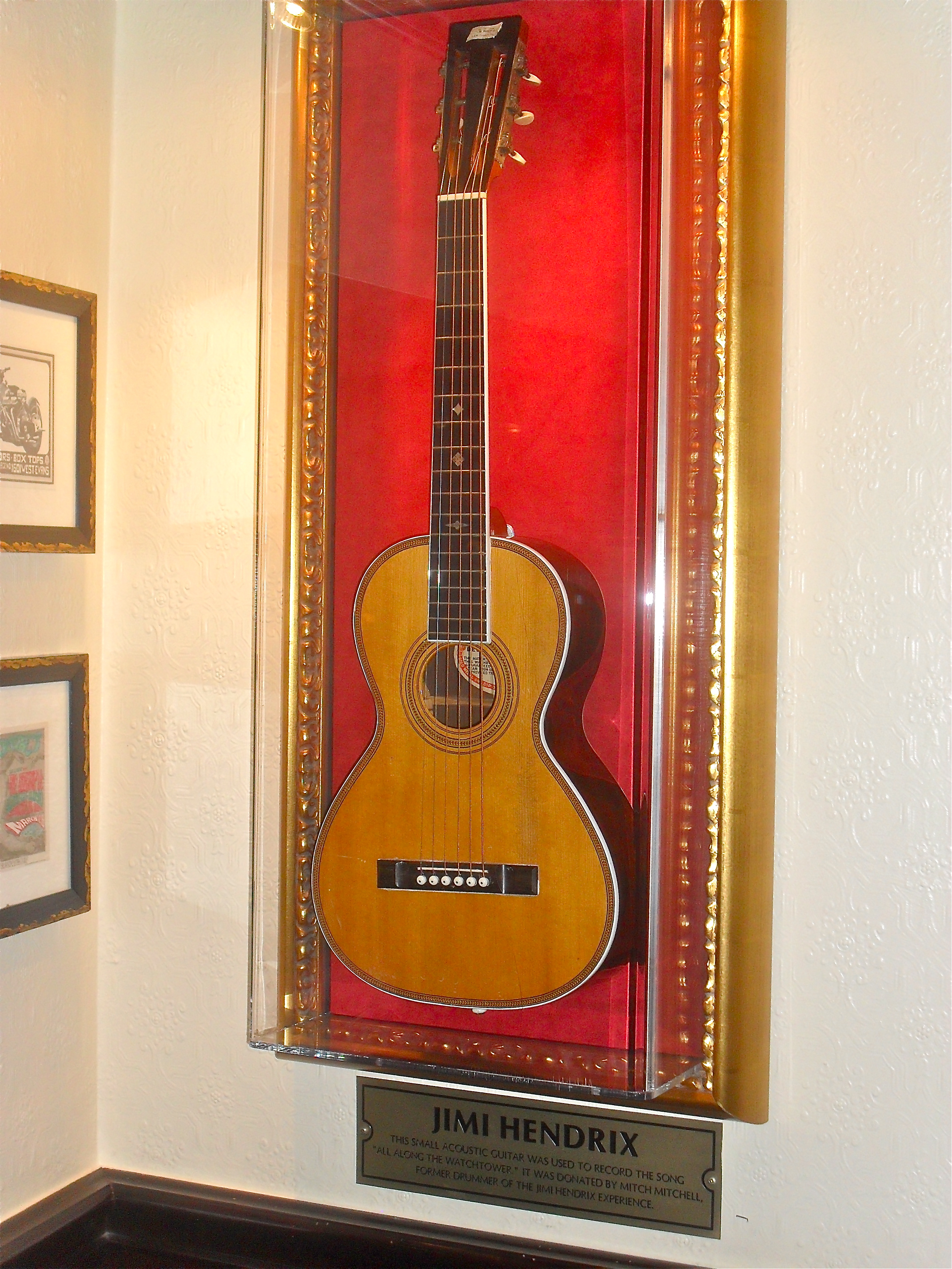 This guitar was used on the recording of All Along the Watchtower and is now in the Hard Rock Cafe in Amsterdam Netherlands.